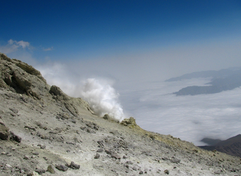 Fumarole near the summit crater of Mount Damavand, emitting sulfur.